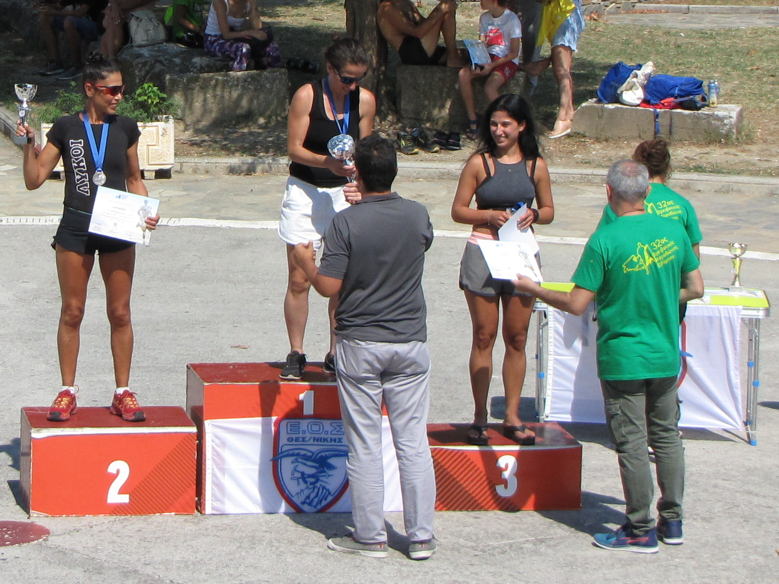 Olympus marathon, presentation ceremony